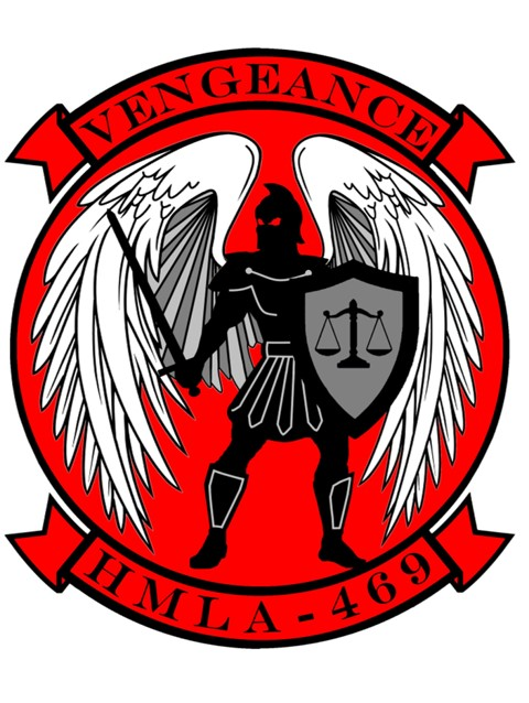 HMLA 469 Unit Patch